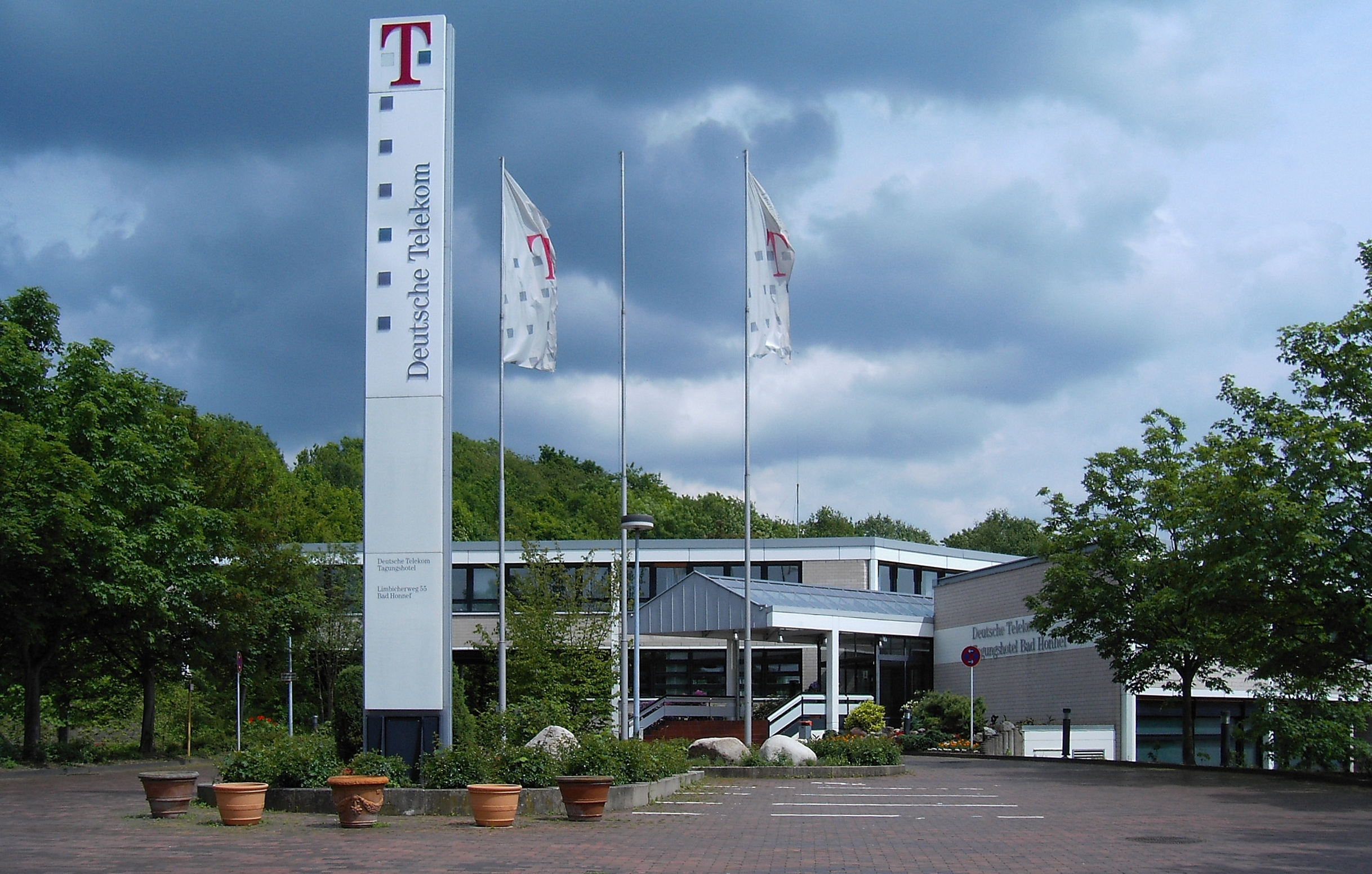 Conference hotel of the Deutsche Telekom AG in the city district Selhof of the town Bad Honnef near Bonn.